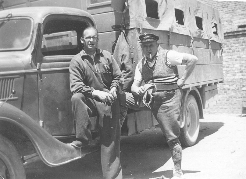 SCI, Raplh Hegnauer (as a truck driver), Spanish Civil War, 1937.